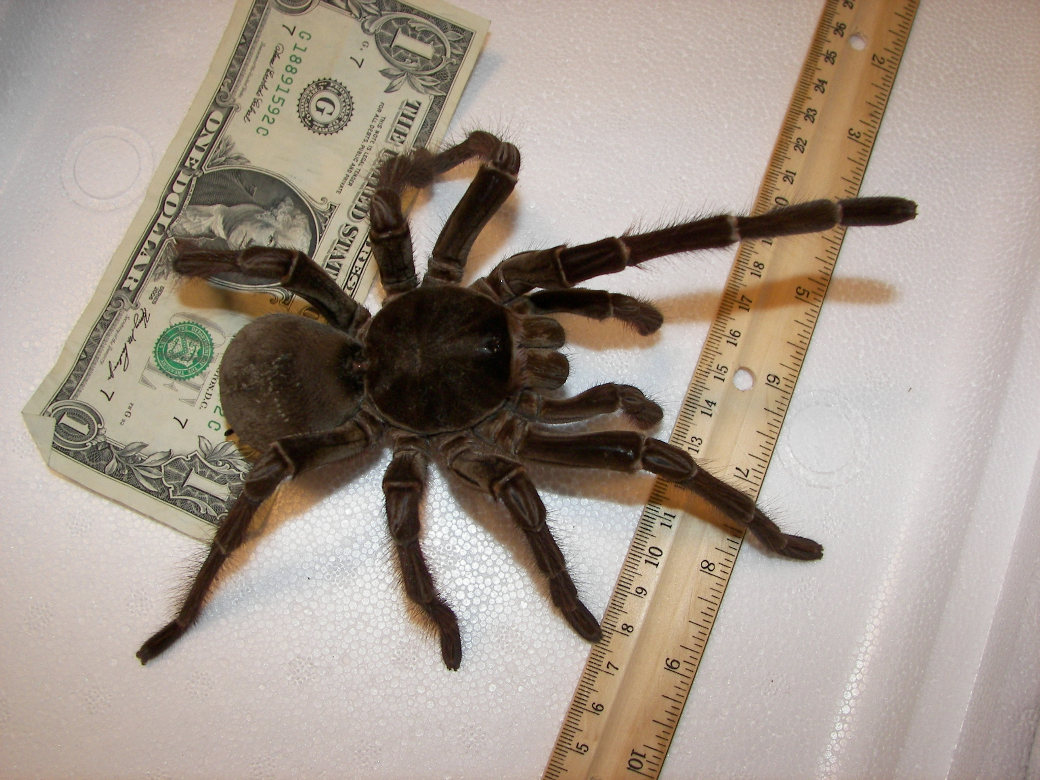 Theraphosa stirmi - Burgundy Goliath Birdeater